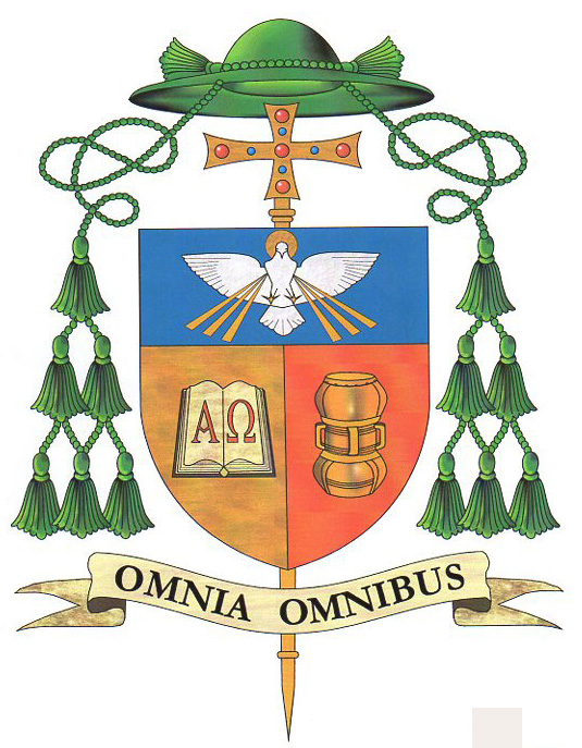 Coat of Arms of Archbishop Imbamba, Angola